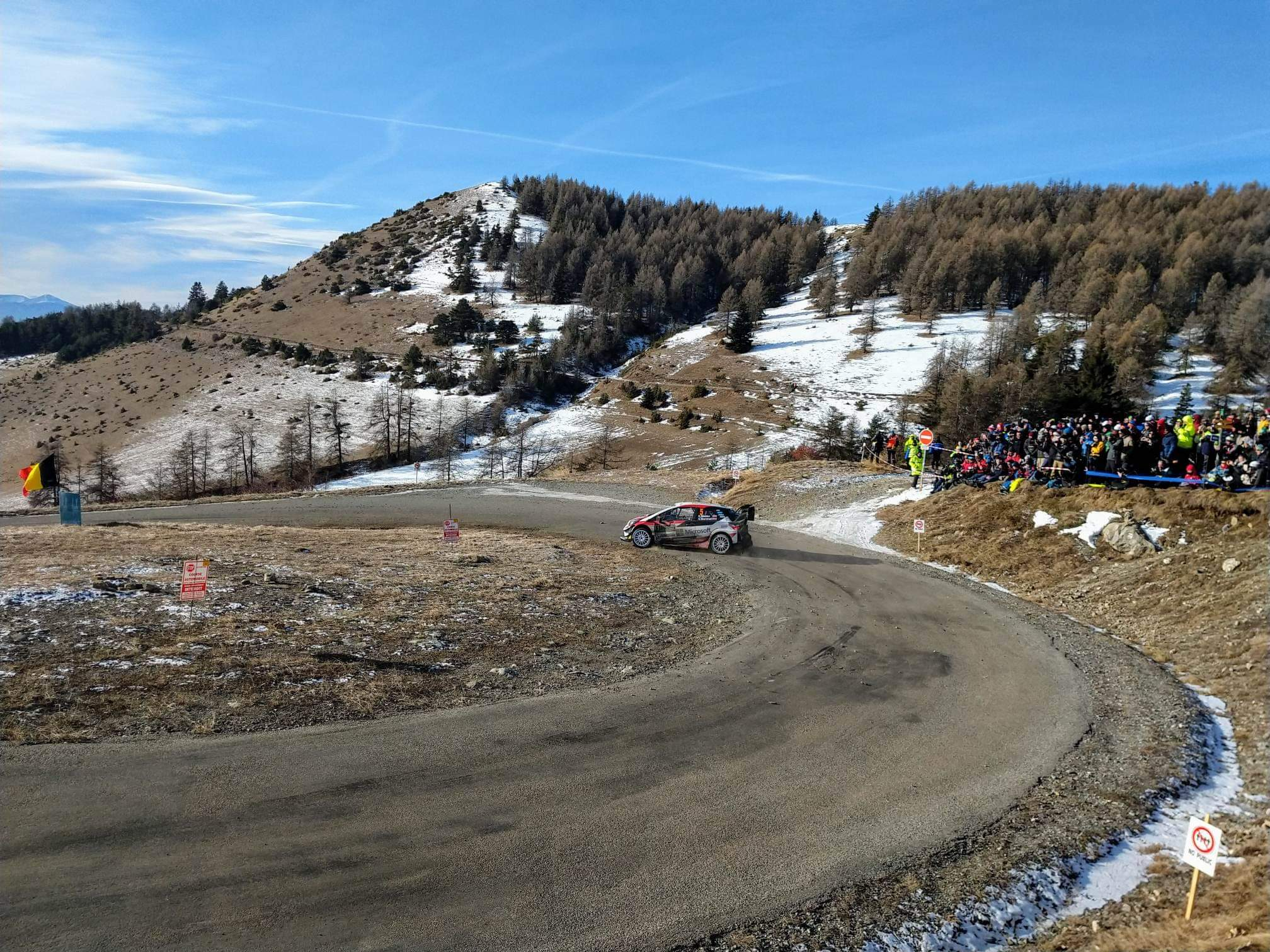 Toyota Yaris WRC de Kris Meeke au Rallye Monte-Carlo 2019.